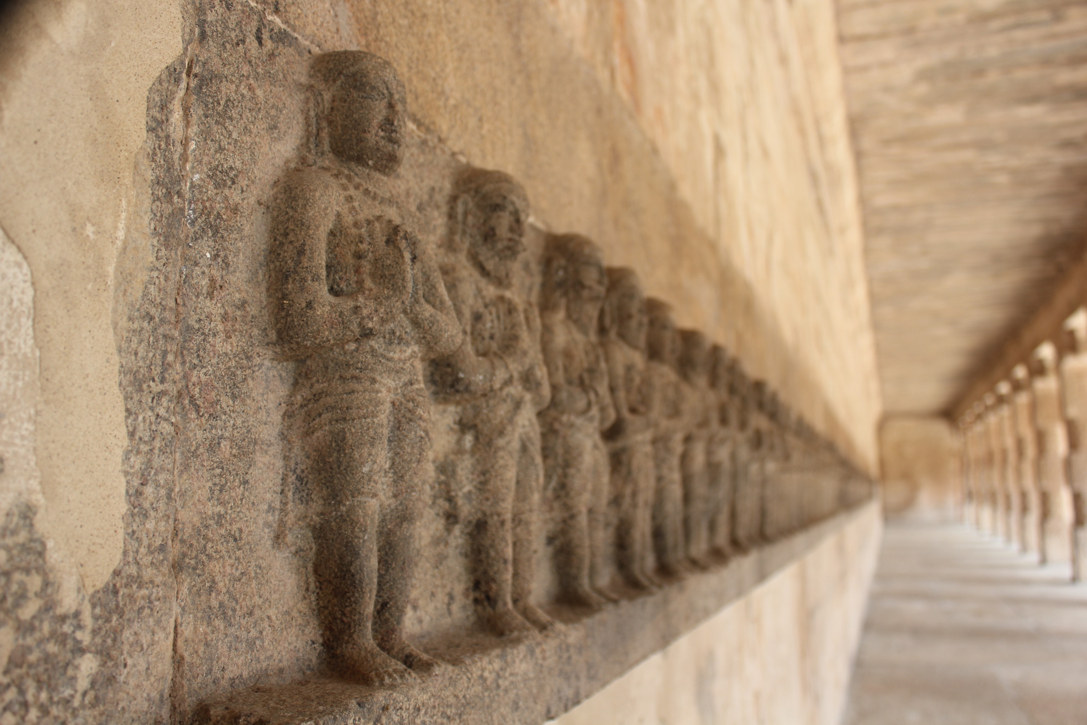 Incription of Nayanmars in the corridor of Darasuram Temple